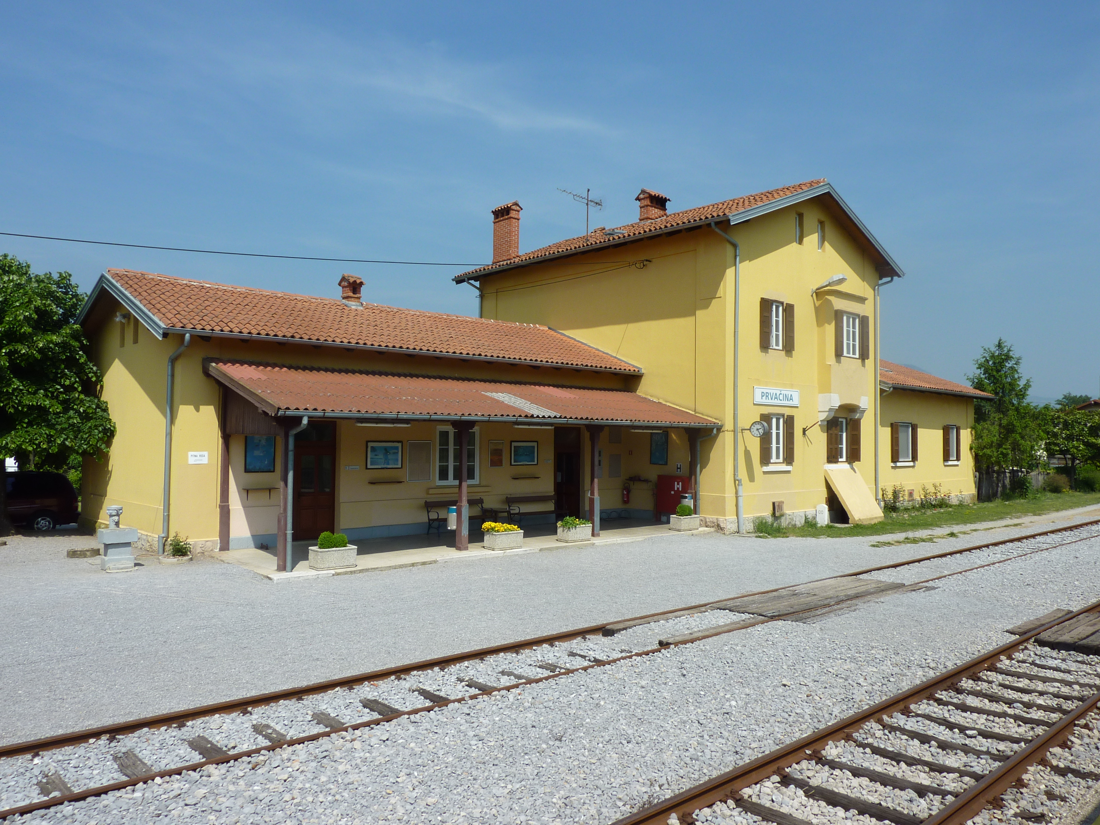 Railway station Prvačina, in Slovenia